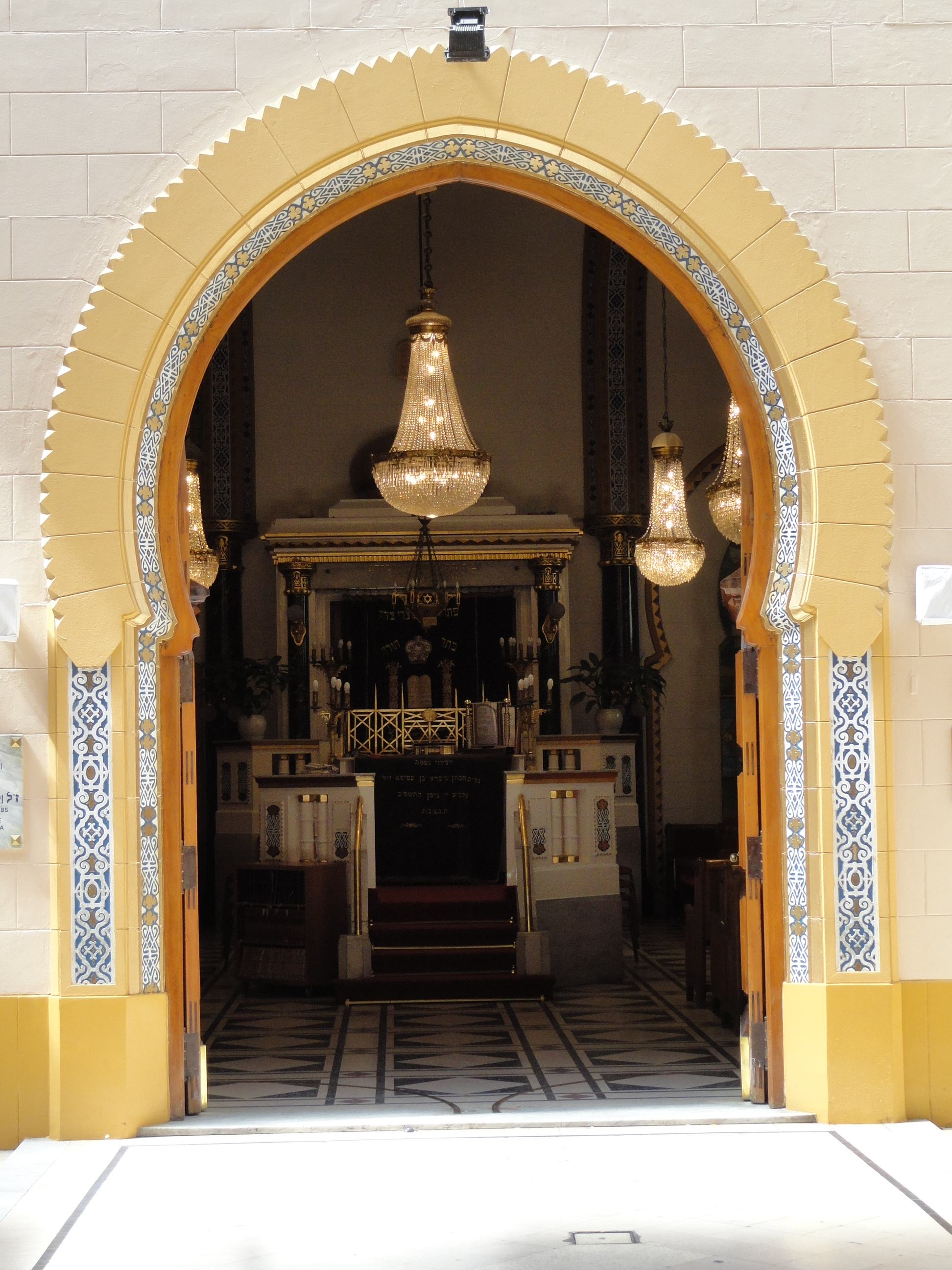 Synagogue Or Torah in Buenos Aires - Entrance door of the prayer hall in the second building showing the Bimah and the Torah arc